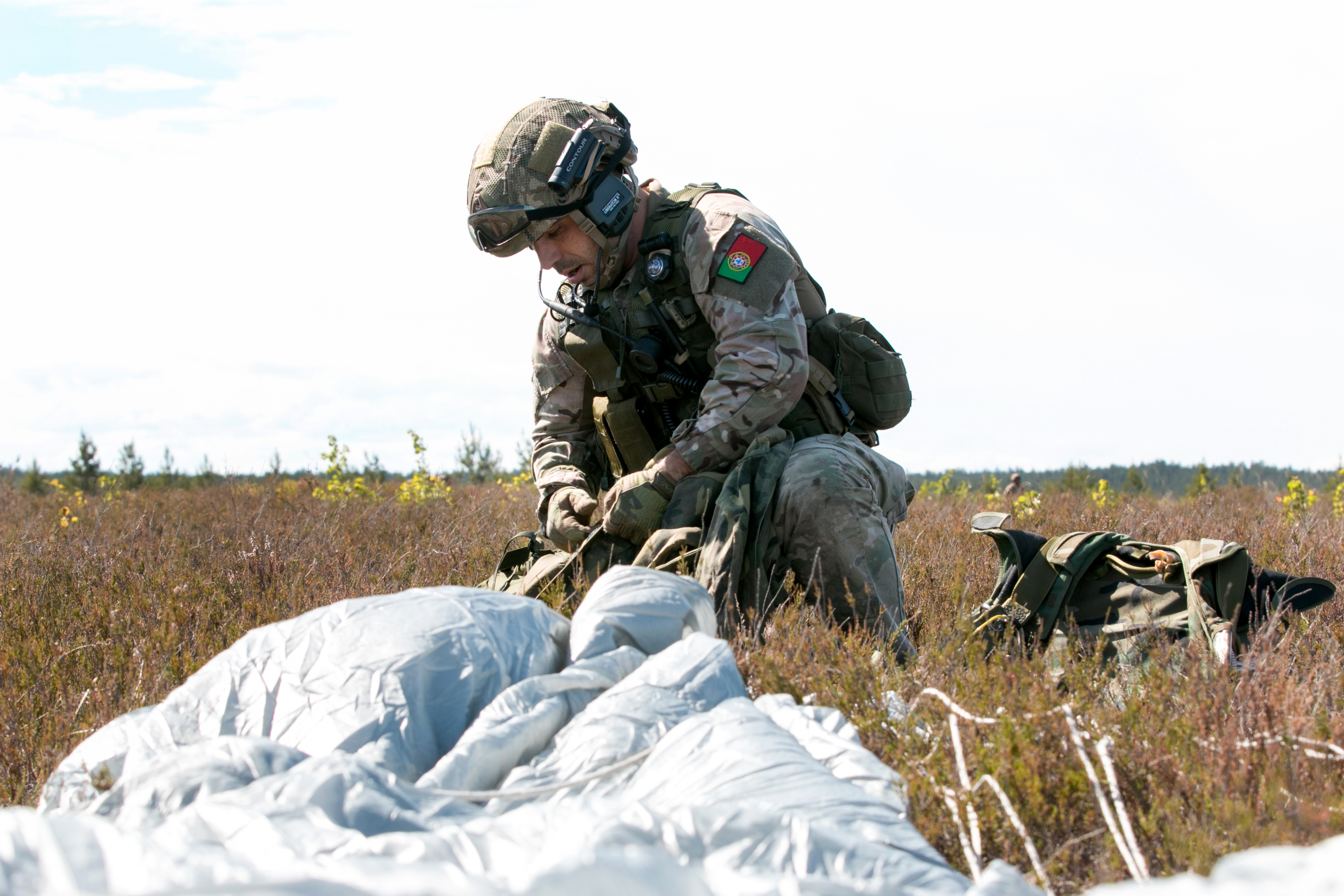 A Portuguese gathers his chute and gear after landing into Adazi Base, Latvia, after conducting a high-altitude low-opening (HALO) jump during Saber Strike 18, June 6, 2018. Saber Strike is a multinational exercise currently in its eighth year. This year's exercise, which runs from June 3-15, tests participants from 19 countries on their ability to work together and improve each units ability to perform their designated missions. (U.S. Army photo by Spc. Dustin D. Biven / 22nd Mobile Public Affairs Detachment)